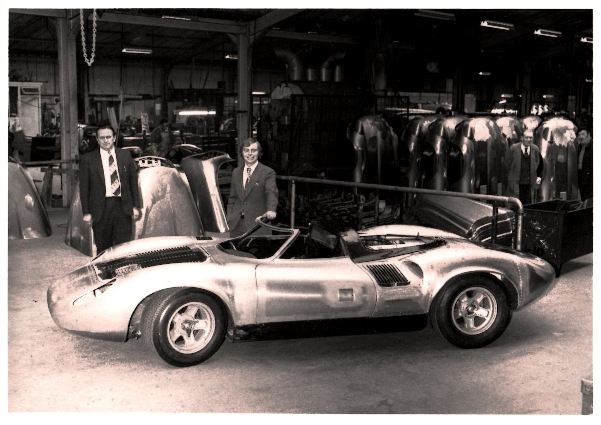 Photograph of the XJ13 during its rebuild at Abbey Panels under the watchful eye of Tony Loades